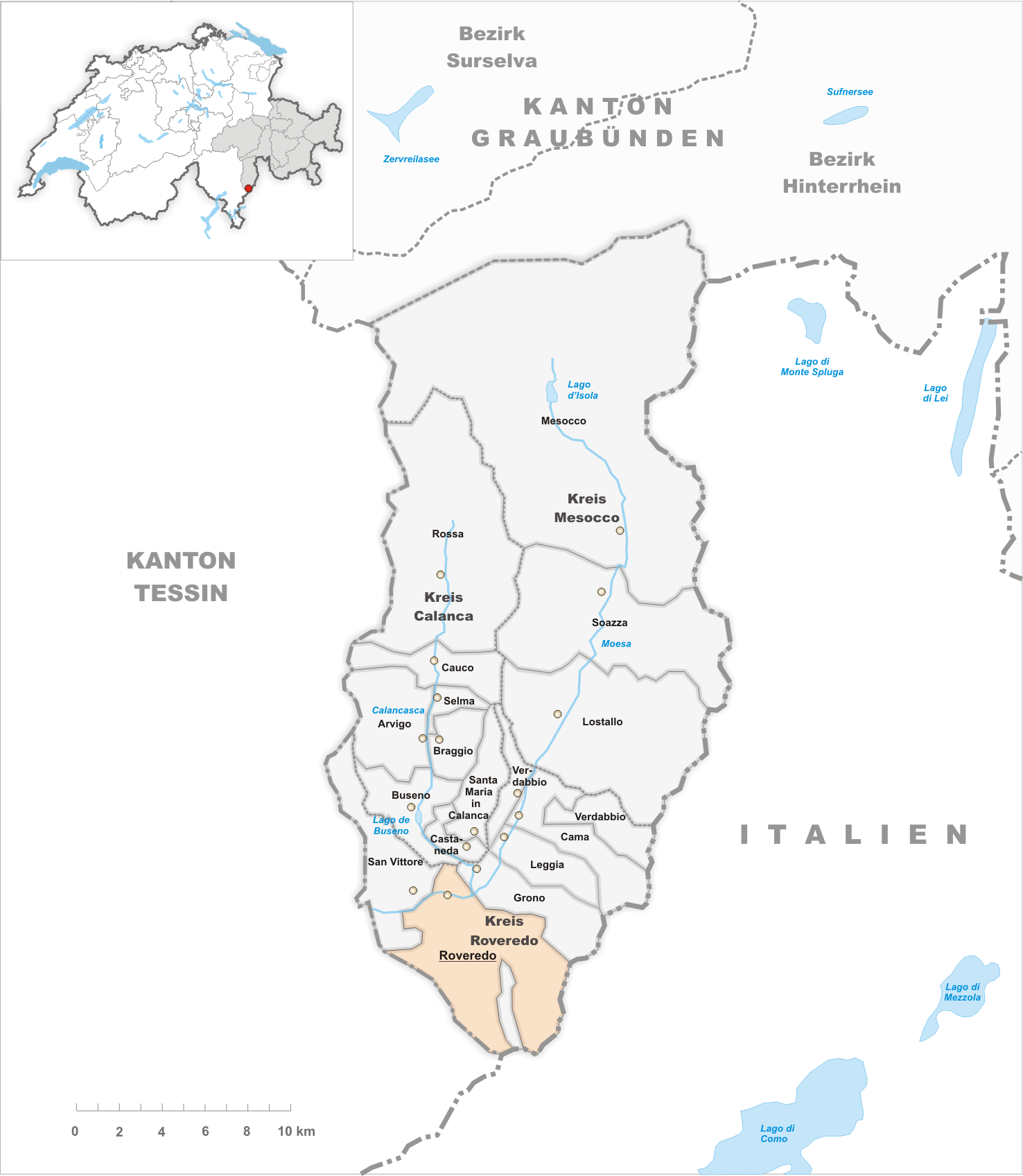 Municipality Roveredo